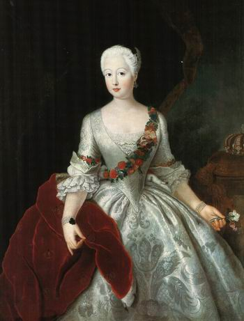 Amalie von Preußen Princess Anna Amalia of Prussia